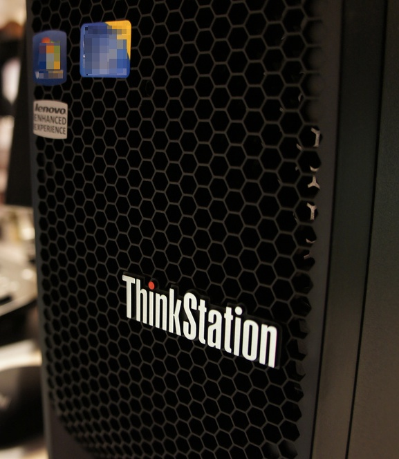 A Lenovo ThinkStation with its distinctive grill.